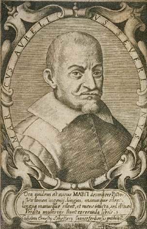 Marco Aurelio Severino